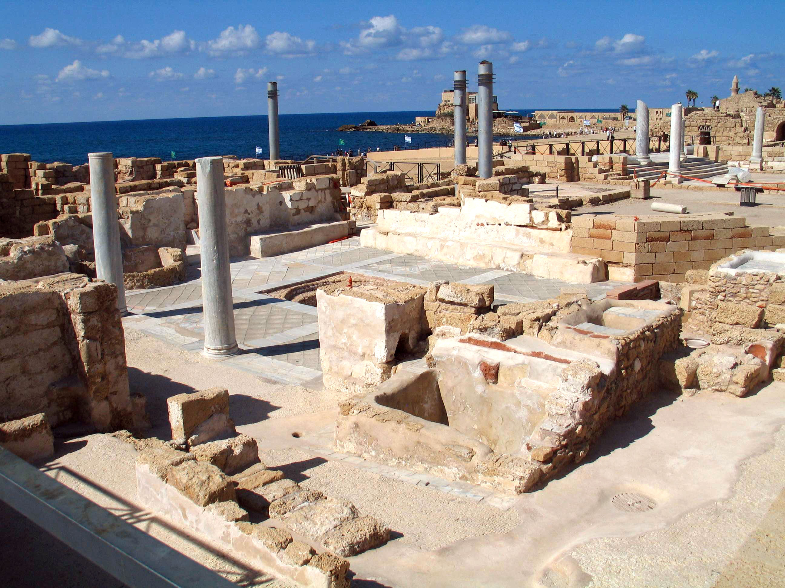 Caesarea Maritima, Israel.